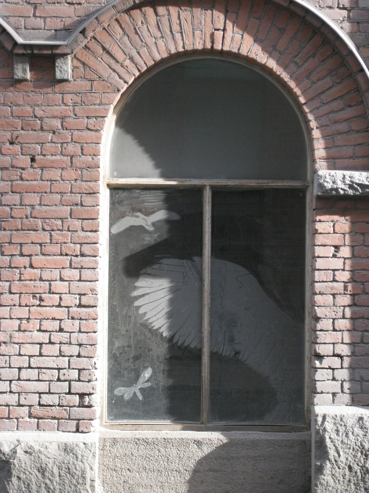 Reverse graffiti at the street Satakunnankatu in Tampere, Finland